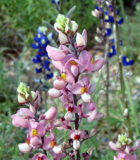 Pink bluebonnets in Big Bend National Park. Source: Photo uploaded by author.